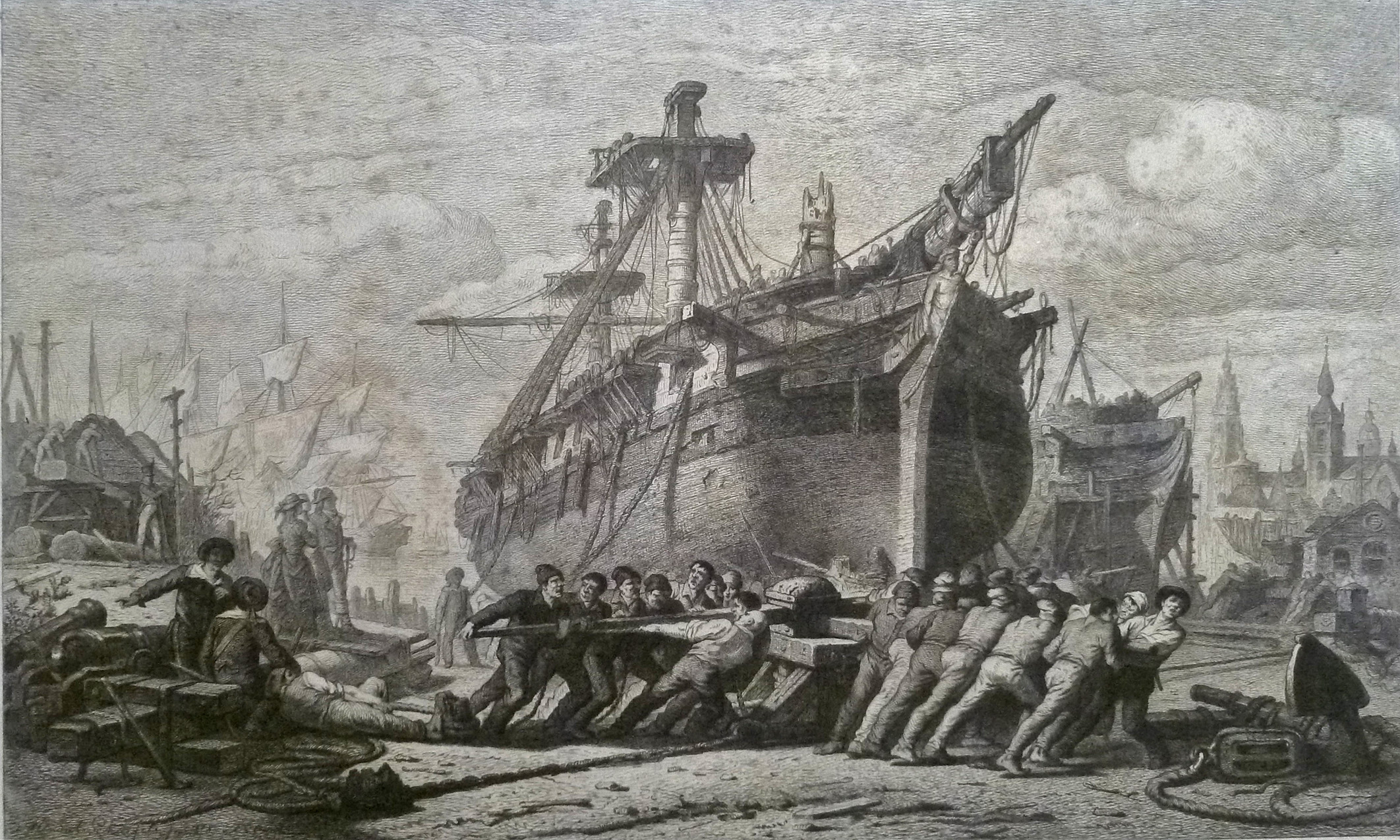 Shipyard of Antwerp (1804) during Napoleonic times; unknown artist; private collection